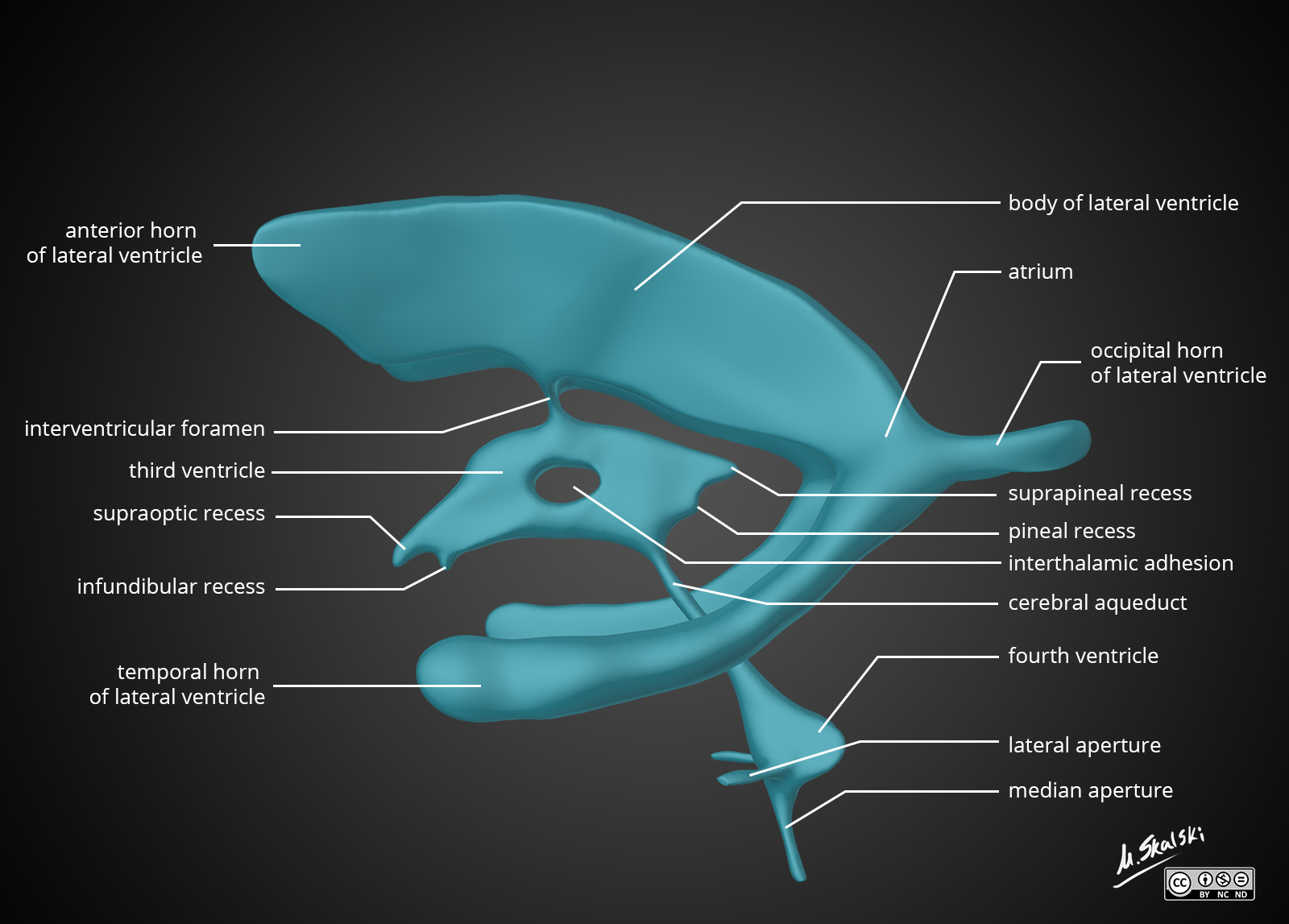 Diagram of the anatomy of the ventricular system of the brain